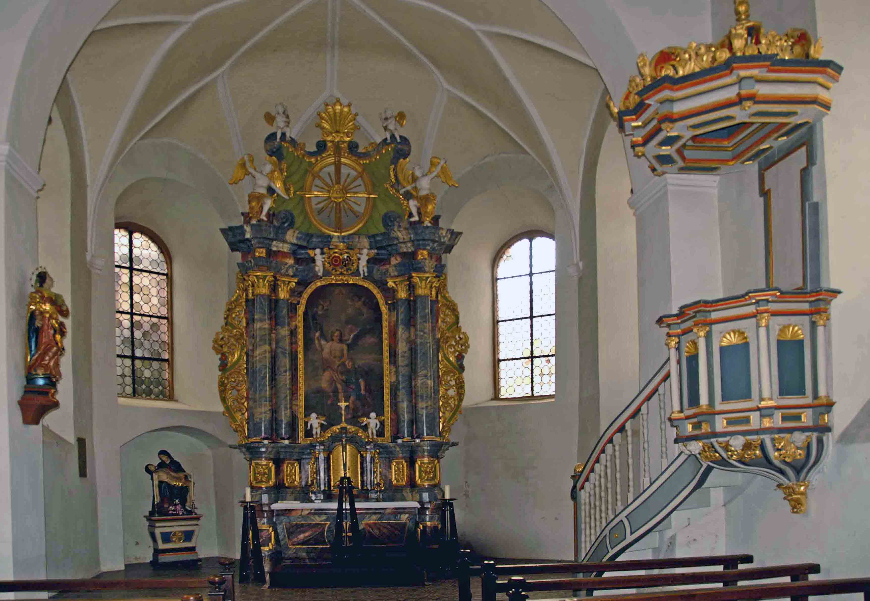 Alter of the old Church in Gissigheim